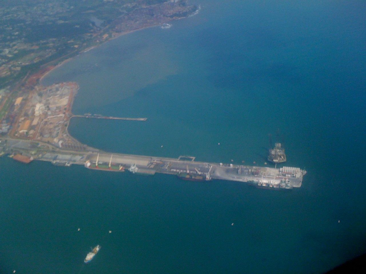 Taken by Mac-Jordan Degadjor with a Apple iPhone 3G camera. A aerial view of Oil platform and Takoradi Harbour in Sekondi-Takoradi.